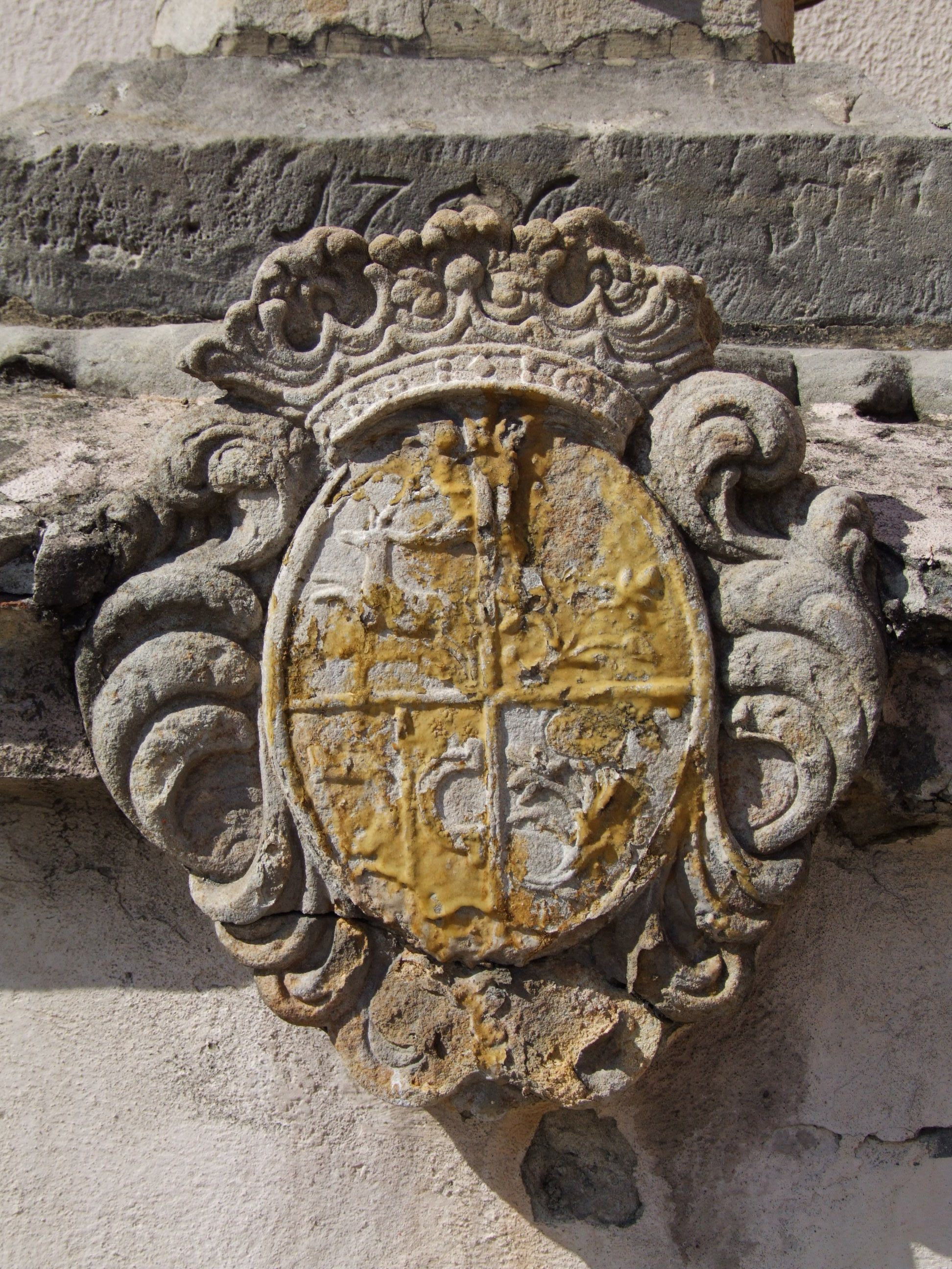 Proskowski coat of arms in Prószków (Proskau)